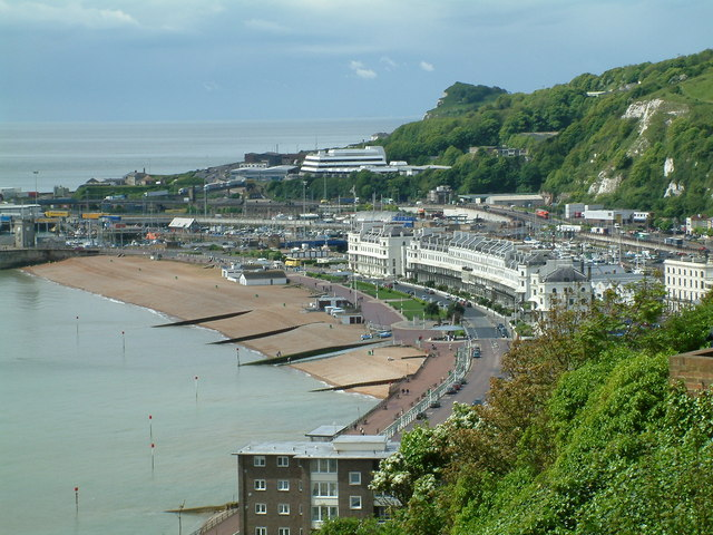 Dover seafront Taken from Dover Castle.